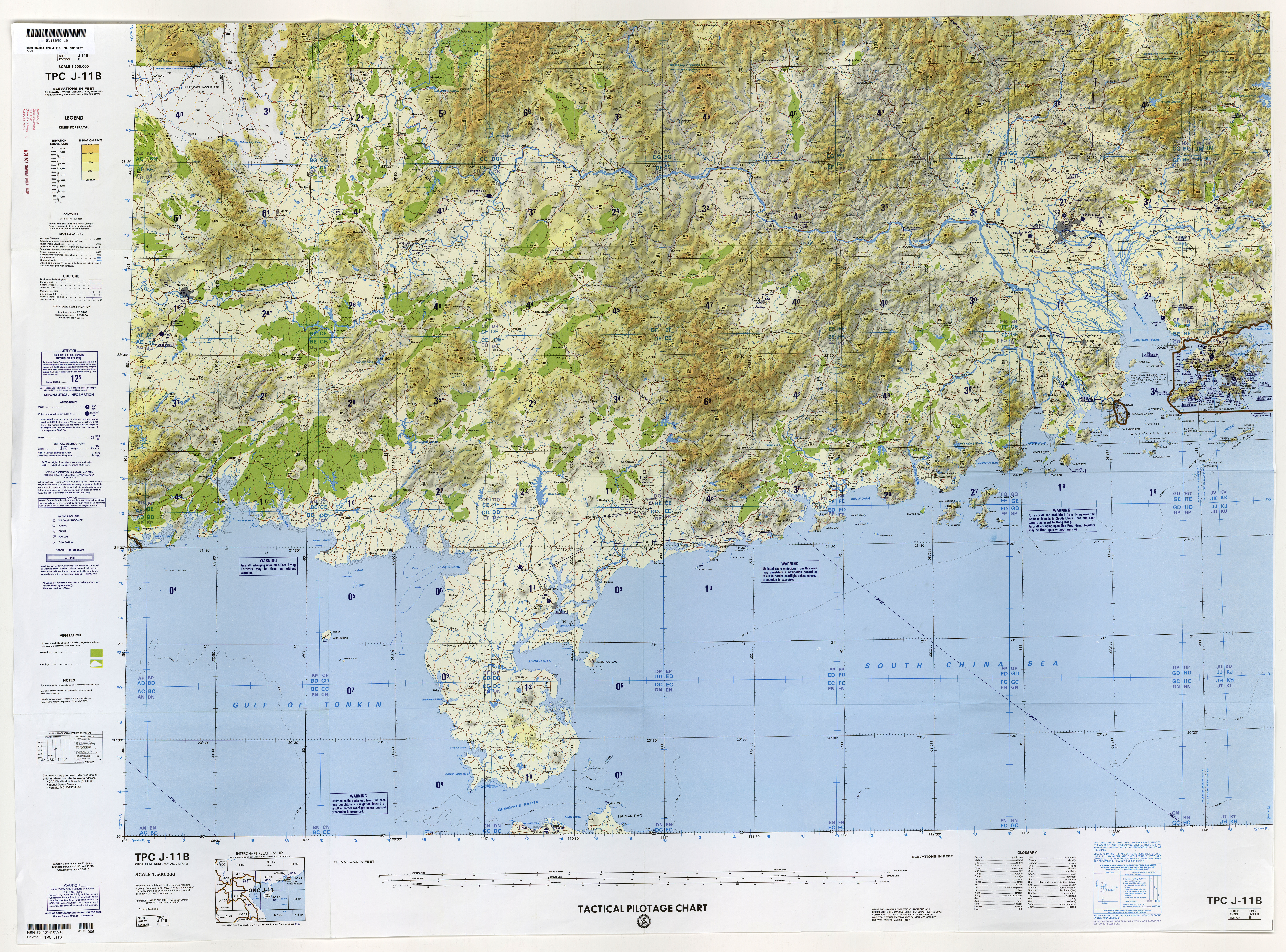 Topographical map of Leizhou Peninsula, Qiongzhou Strait, Hong Kong, Macau, and other parts of southern China